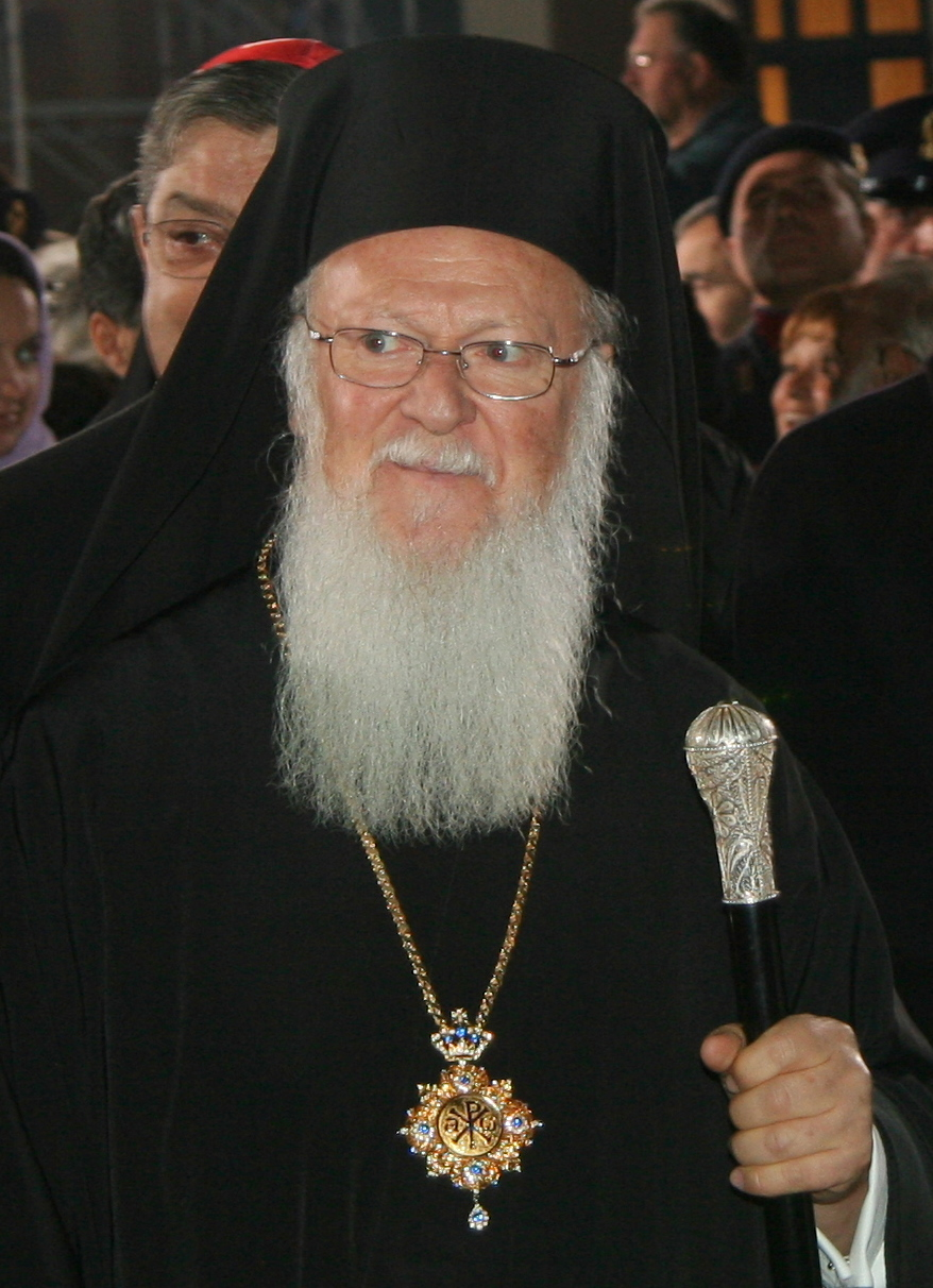 His Holiness Bartholomew I ecumenical patriarch of Costantinople Πατριάρχης Βαρθολομαίος""